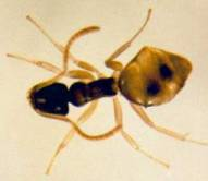 Photograph is of a Ghost Ant (worker) taken using Olympus 30, using microscope attachment, by Andy Brookes. Specimen was taken from an infested site in east London Circa 2002, by Andy BrookesBSc(Biol),FRES